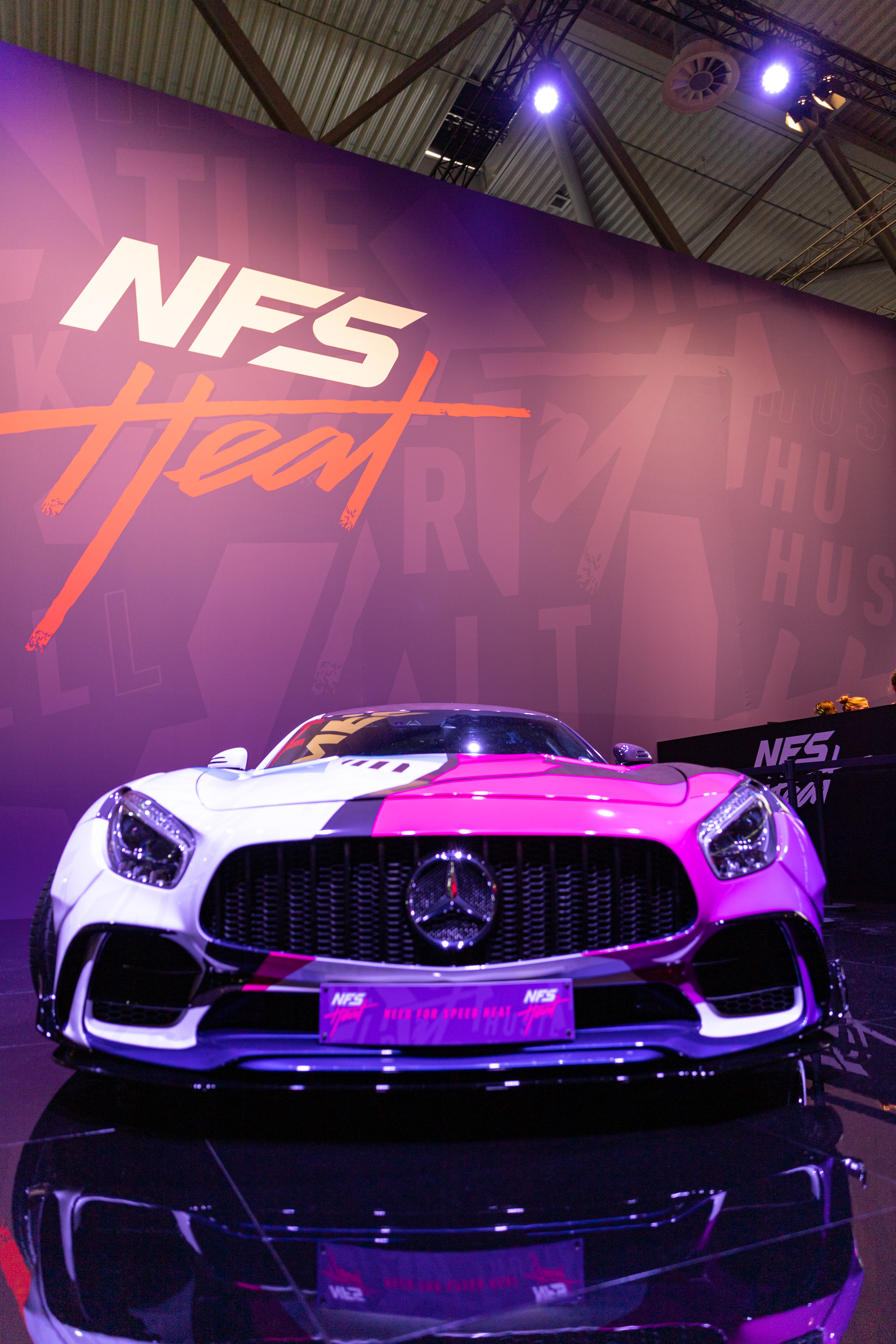 Need for Speed Heat Car Gamescom 2019